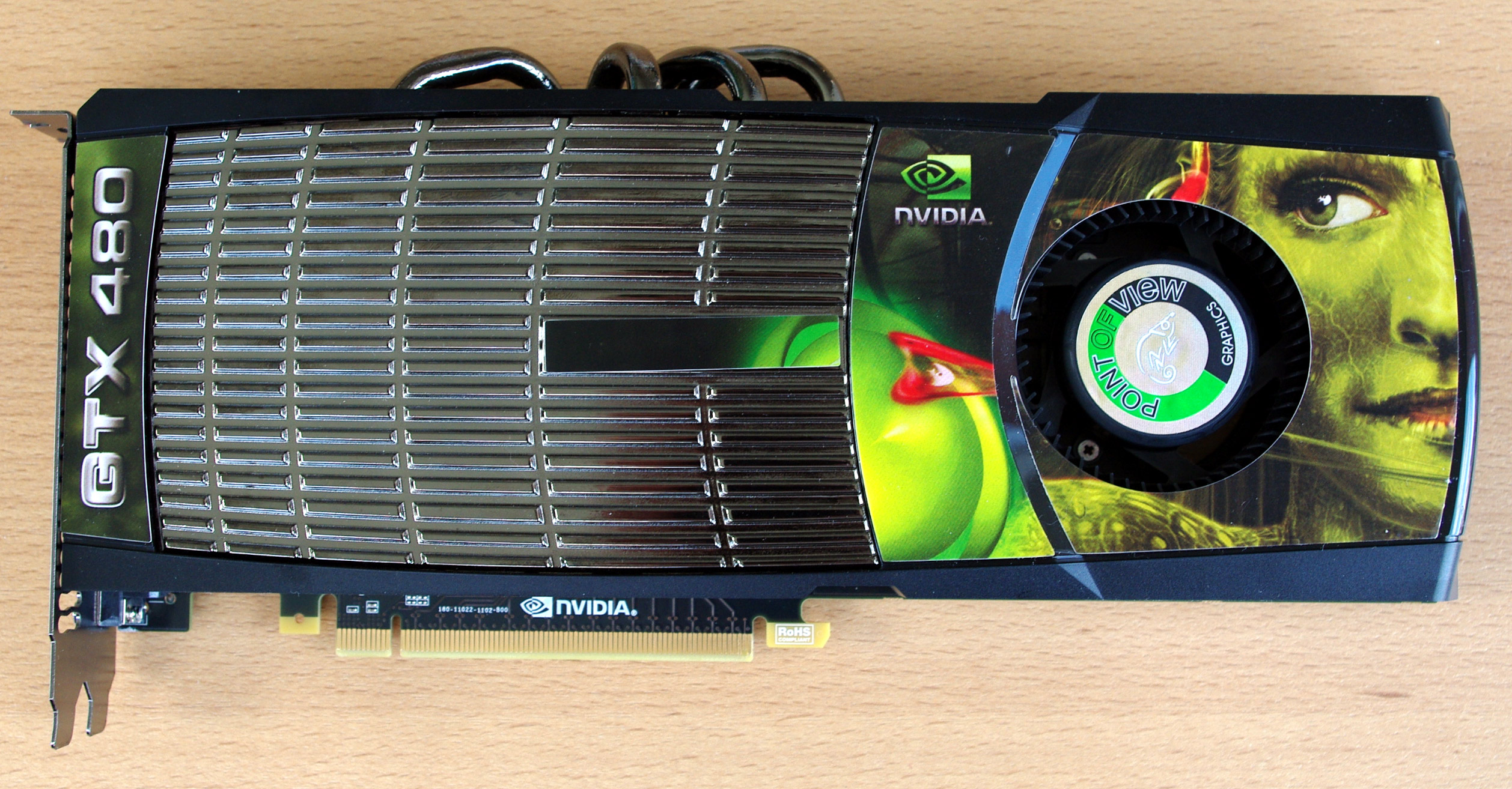 NVidia GeForce GTX480 video card, Point of View brand, reference design